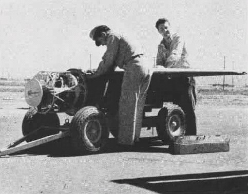 Maintenance on a Bat self-homing bomb showing its radar, probably in the mid-1940s.